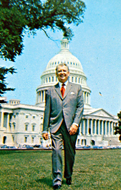 J. Herbert Burke, US Representative from Florida